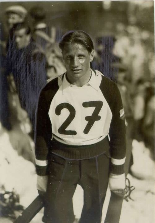 Bogo Šramel (1908-2001)